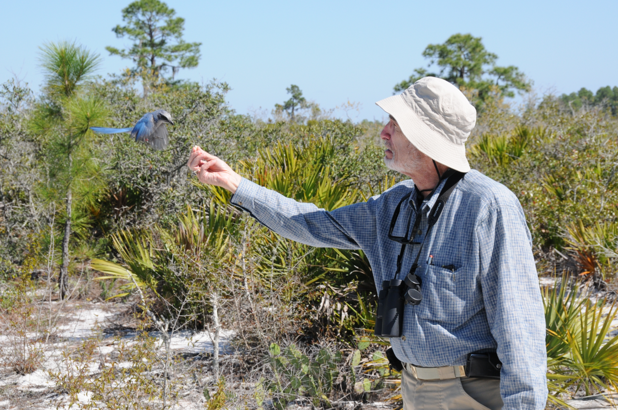 Paul Ralph Ehrlich is an American biologist, educator and the president of Stanford's Center for Conservation Biology. He is also a prominent ecologist and demographer.